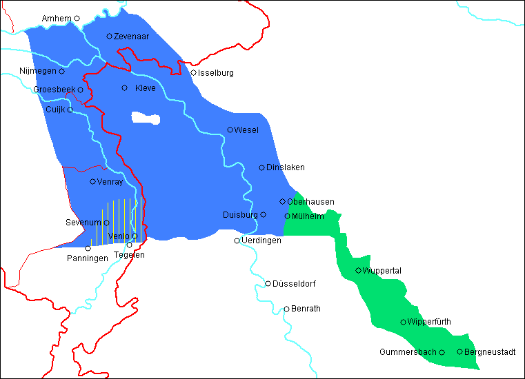 Outline of Kleverlandish and East-Bergish. Boundaries as defined by Jan Goossens (Netherlands) and Georg Cornelissen (Germany)